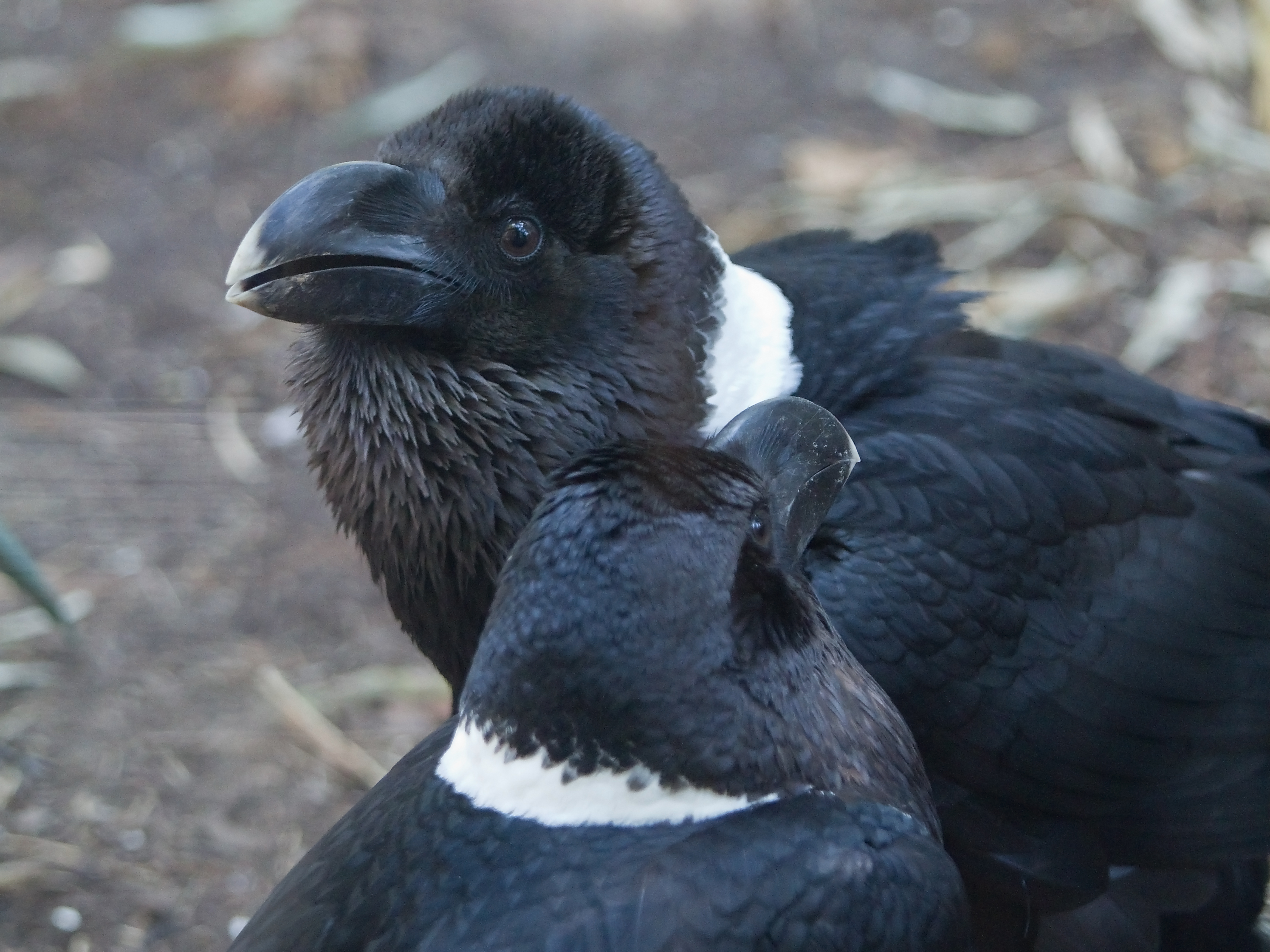 White necked raven at the Cincinnati Zoo.